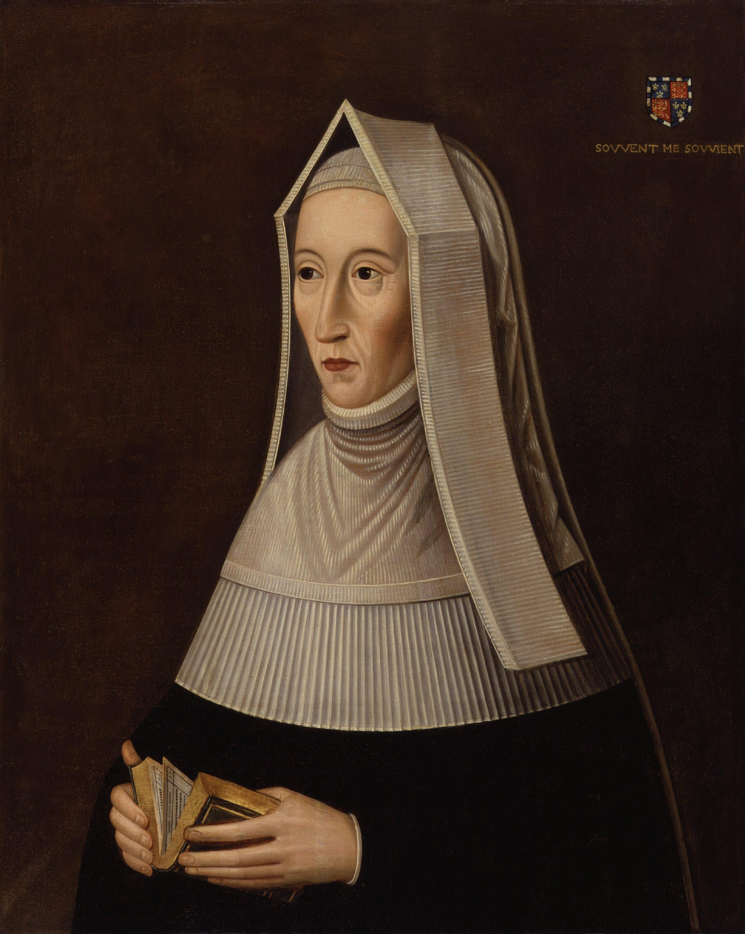 Portrait of Lady Margaret Beaufort (1443-1509) dressed as a widow, mother of Henry VII of England. The portrait features the crest of the House of Beaufort, and the words "souvent me souvient", Medieval French for "think of me often", now used as the motto of Lady Margaret Hall, Oxford, Christ's College, Cambridge and St John's College, Cambridge. All images in this batch have an unknown author, but there is strong evidence it was first published before 1923 (based mainly on the NPG's estimated date of the work).